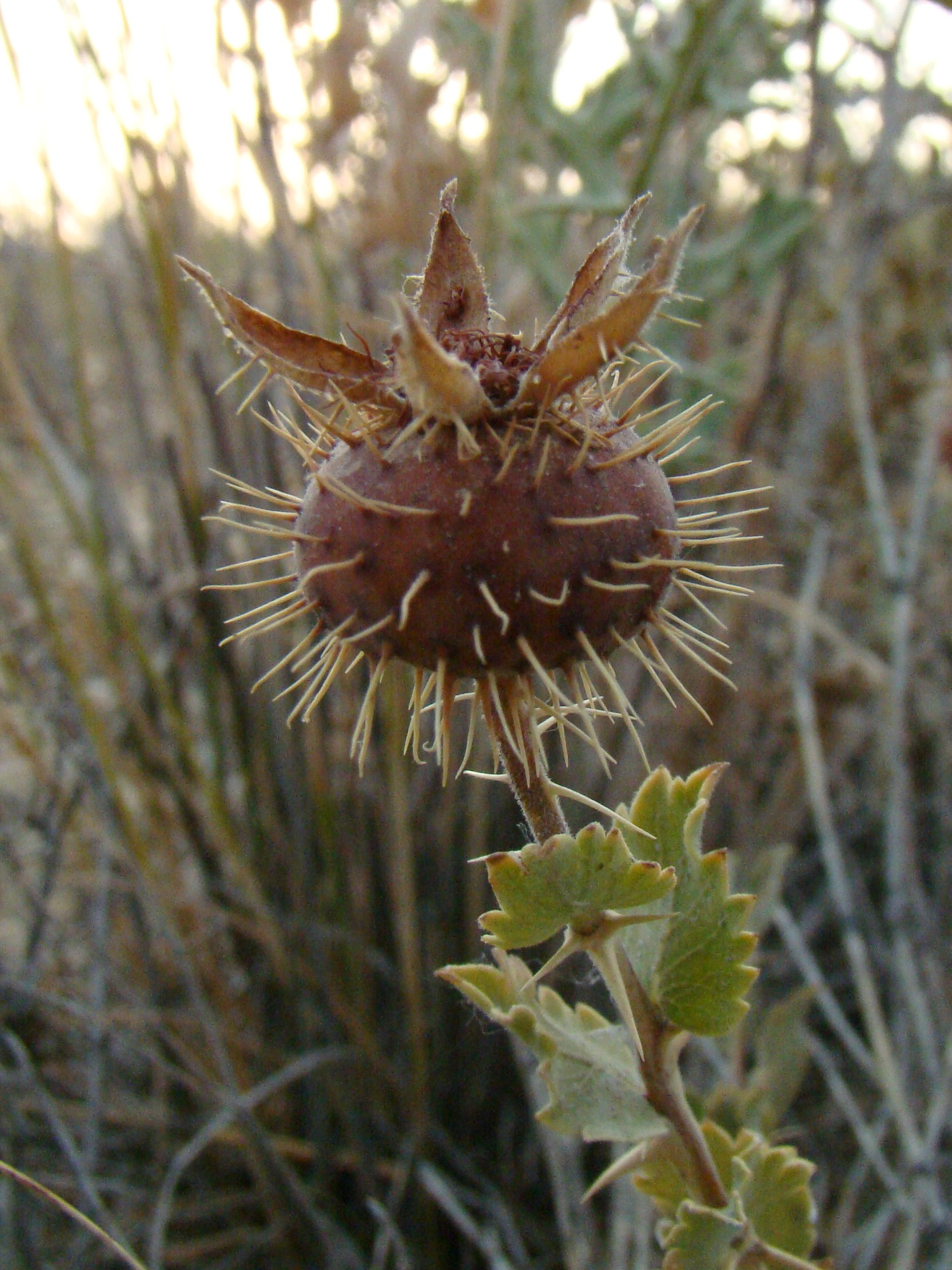 Hulthemia Persica (Rosa persica). Baikonur, Kazakhstan.